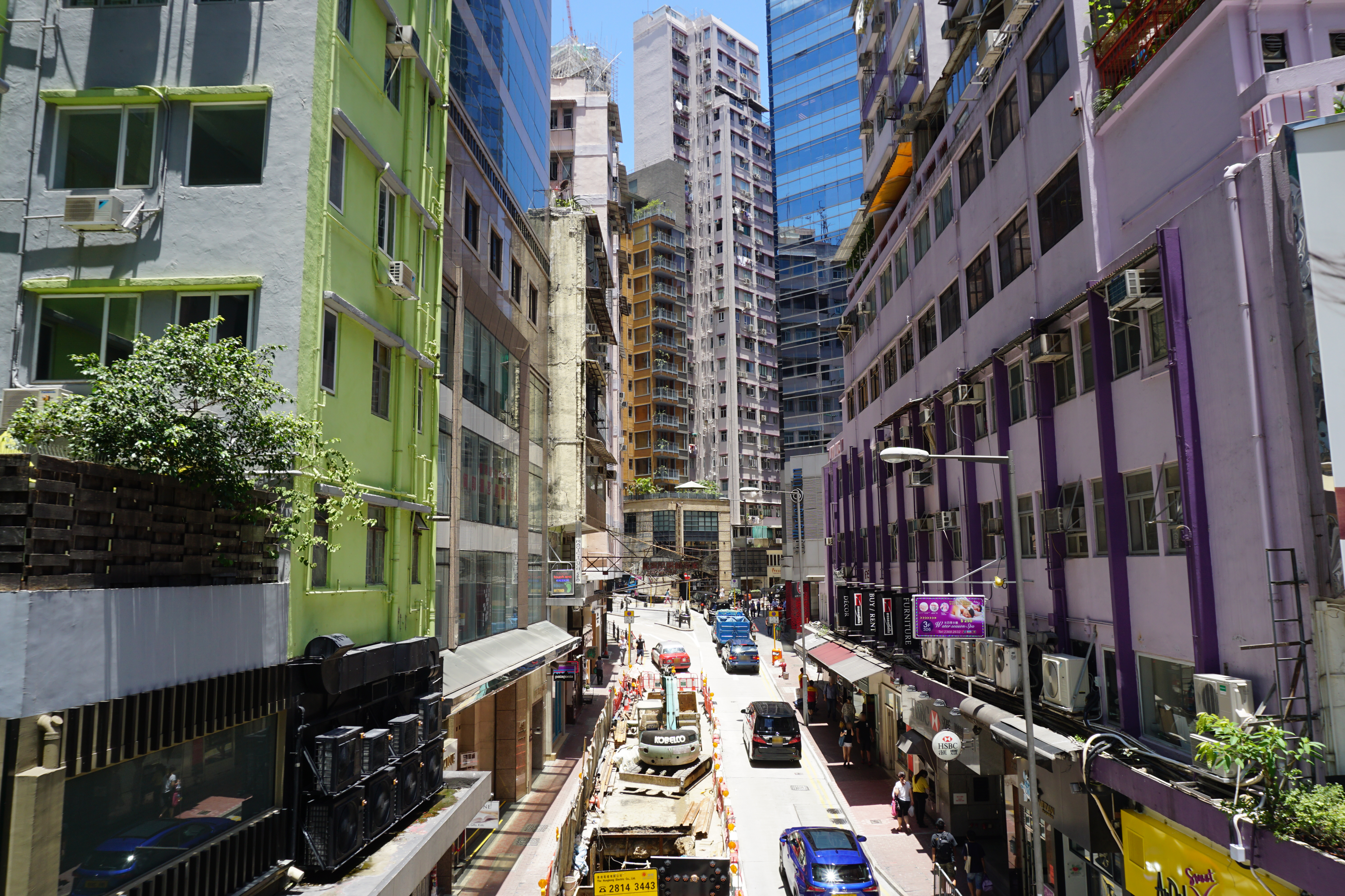 Lyndhurst Terrace in Central, Hong Kong.